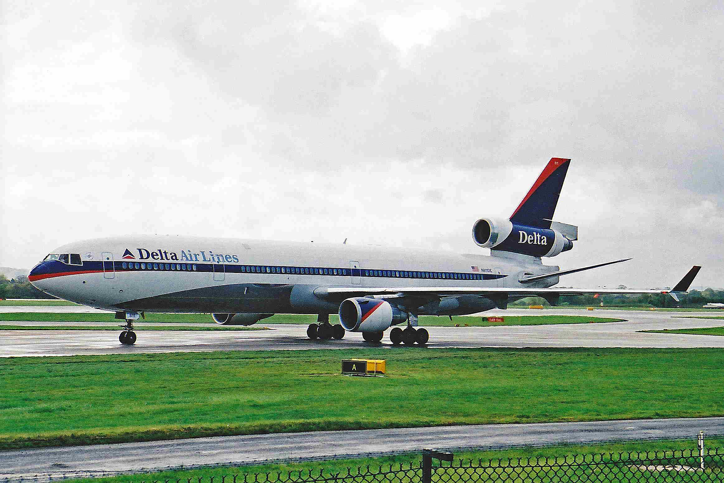 A picture of an airplane